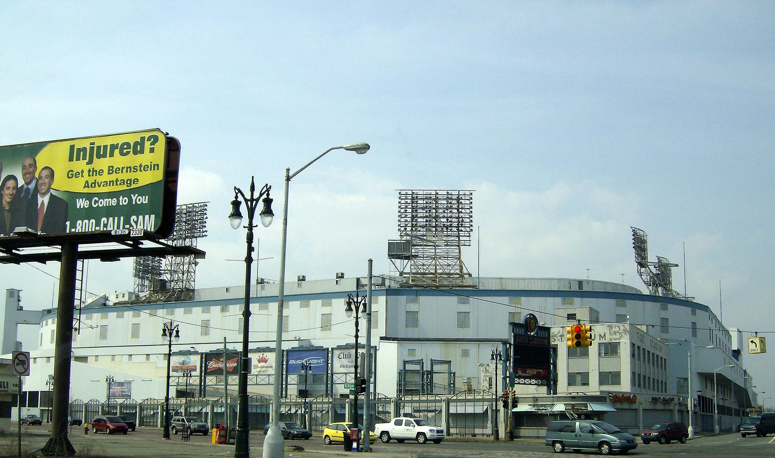 Tiger Stadium, Detroit, Michigan, United States, at the corner of Trumbull and Michigan.